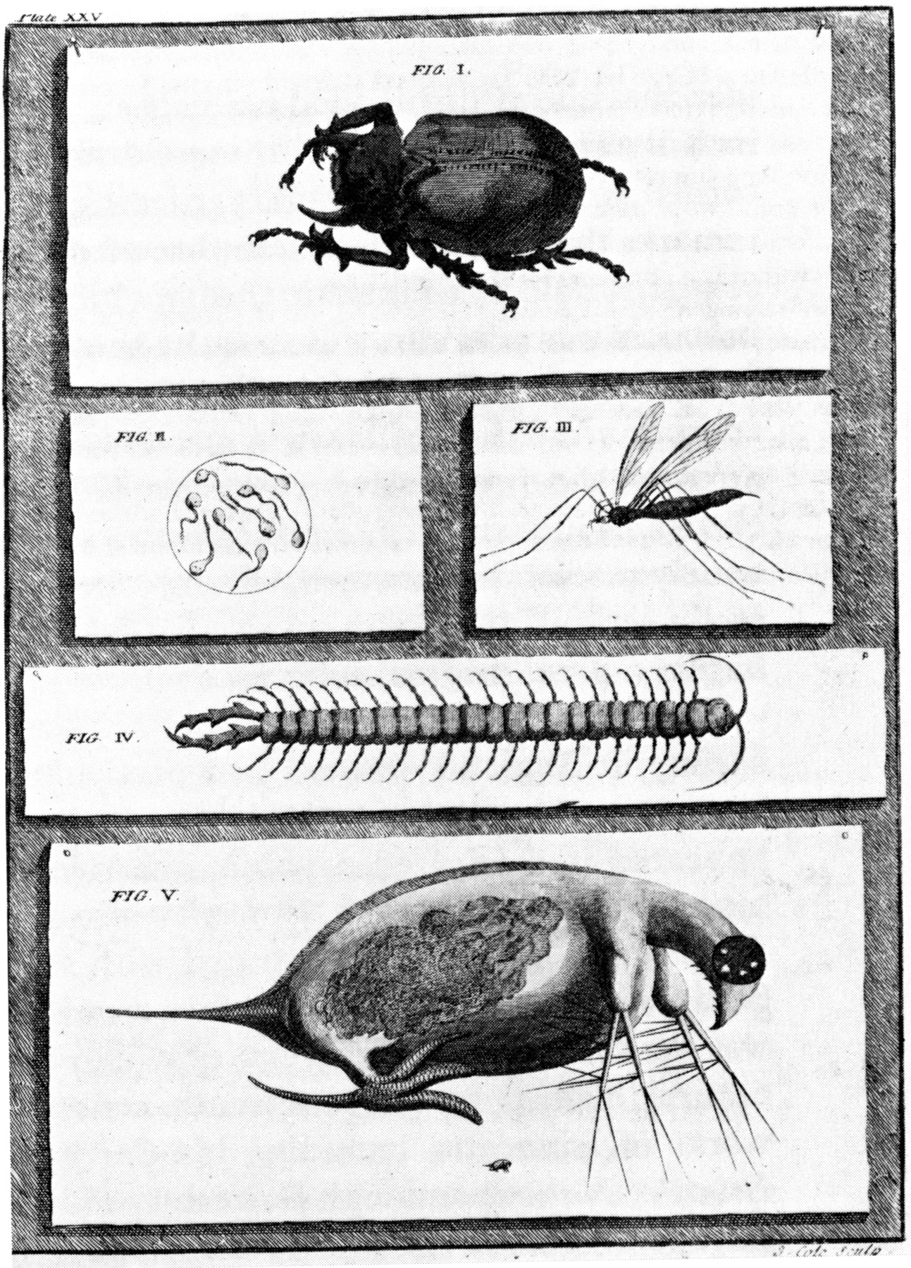 Insects and animalculae from Thames Water